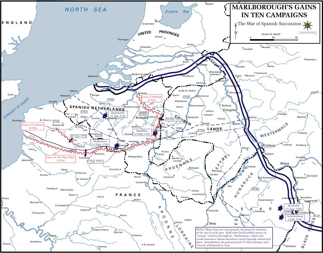 The War of Spanish Succession, Marlborough's Gains in Ten Campaigns